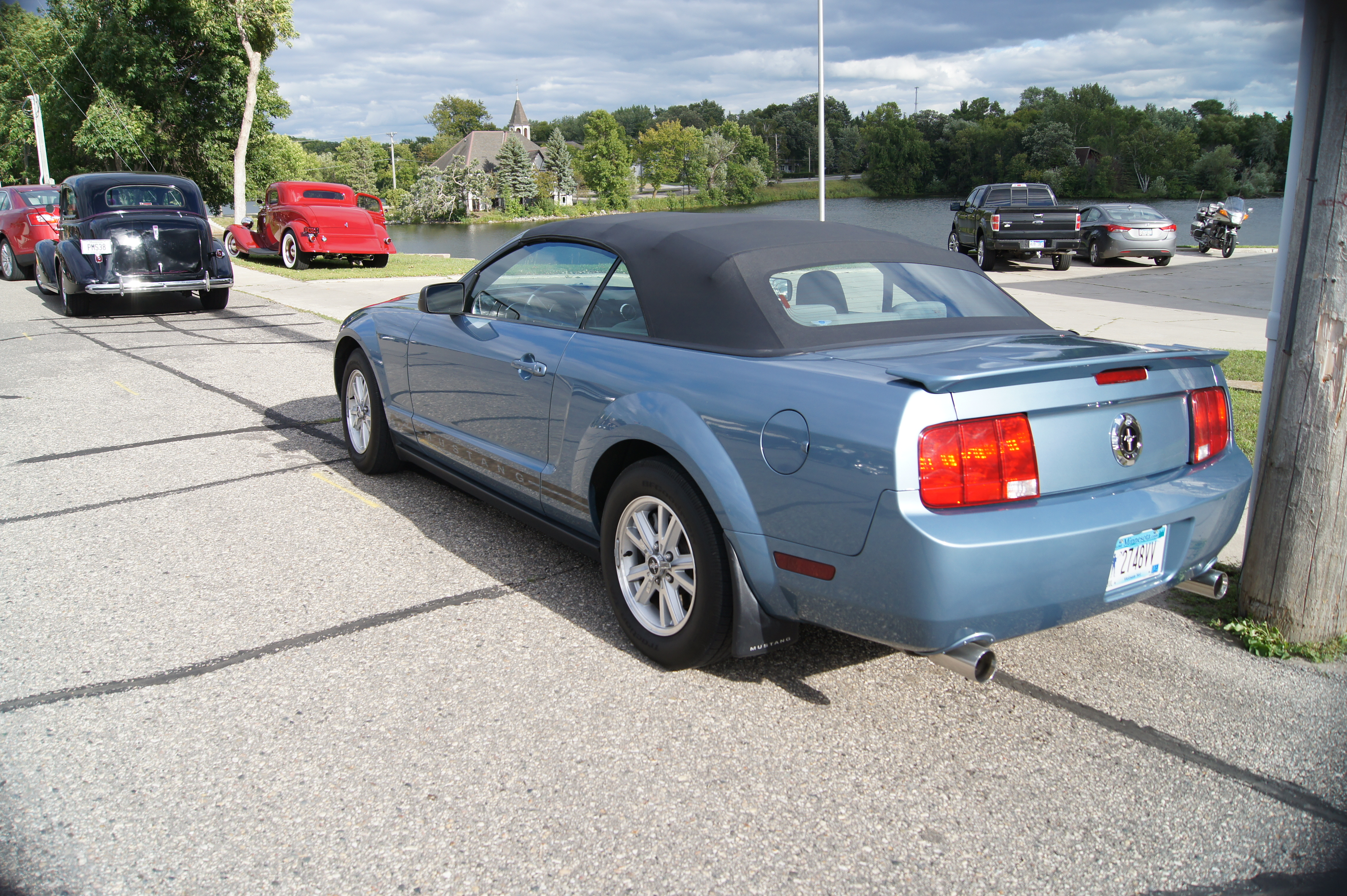 27th Annual New London to New Brighton Antique Car Run Automobile Parade through New London. The night before the Antique Car Run begins. More Car Pictures